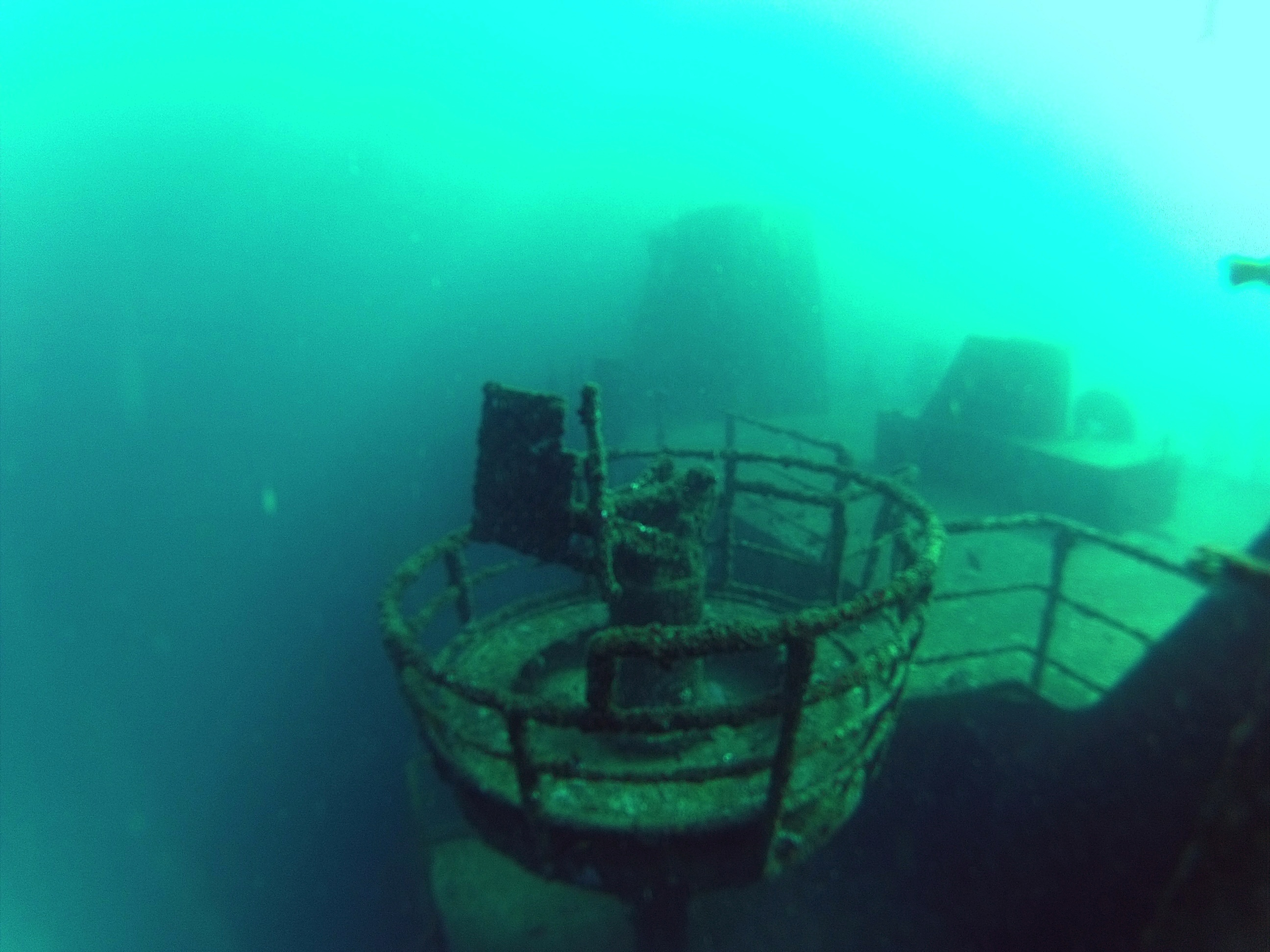 Wreck of the oman marine vessel Al Munassir. Ship was sunken in 2003 as a dive spot and an artificial riff off Muscat.